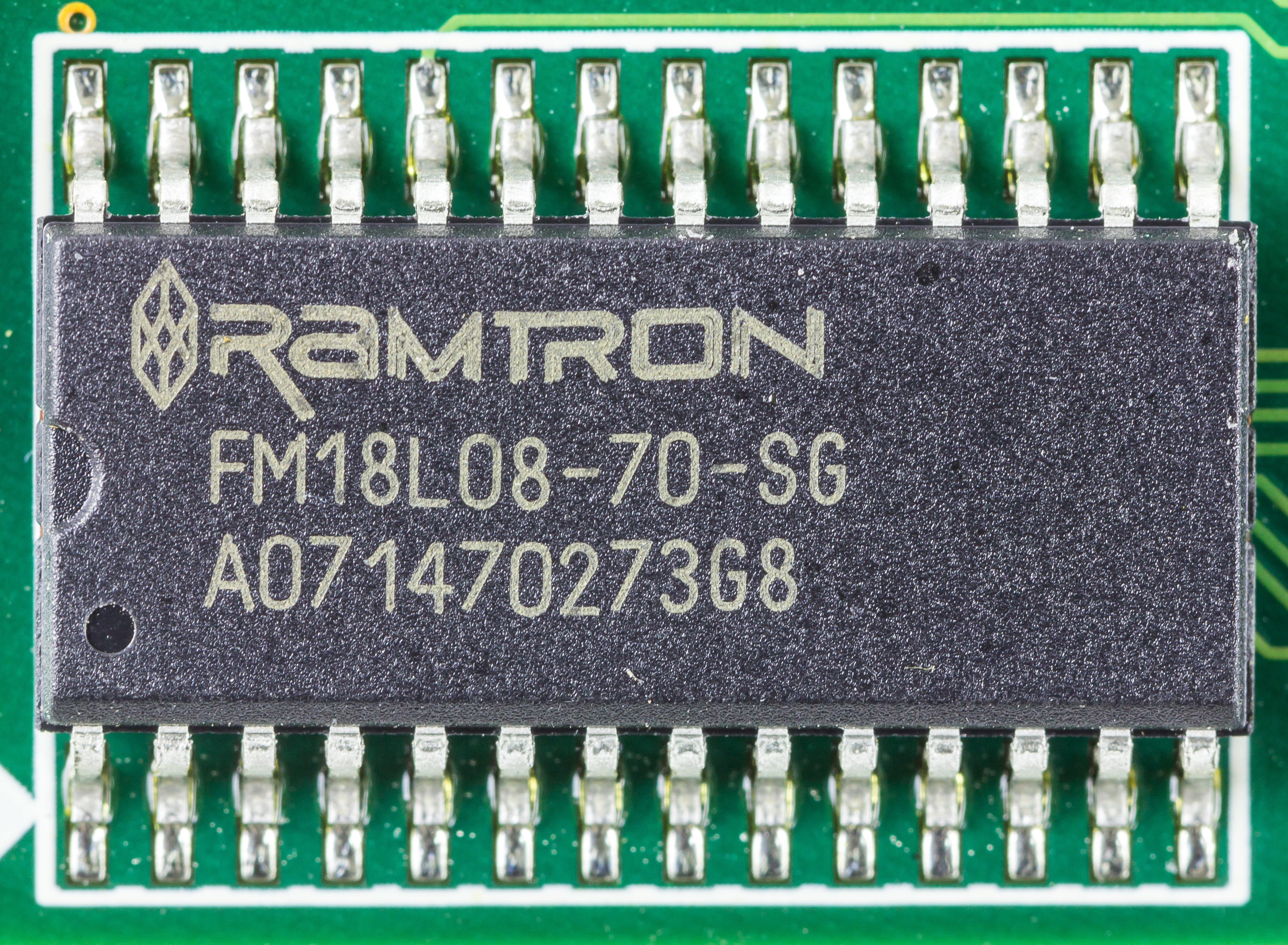 Medical Econet PalmCare - CPU module - Ramtron FM18L08-70-SG - 256Kb Bytewide FRAM Memory